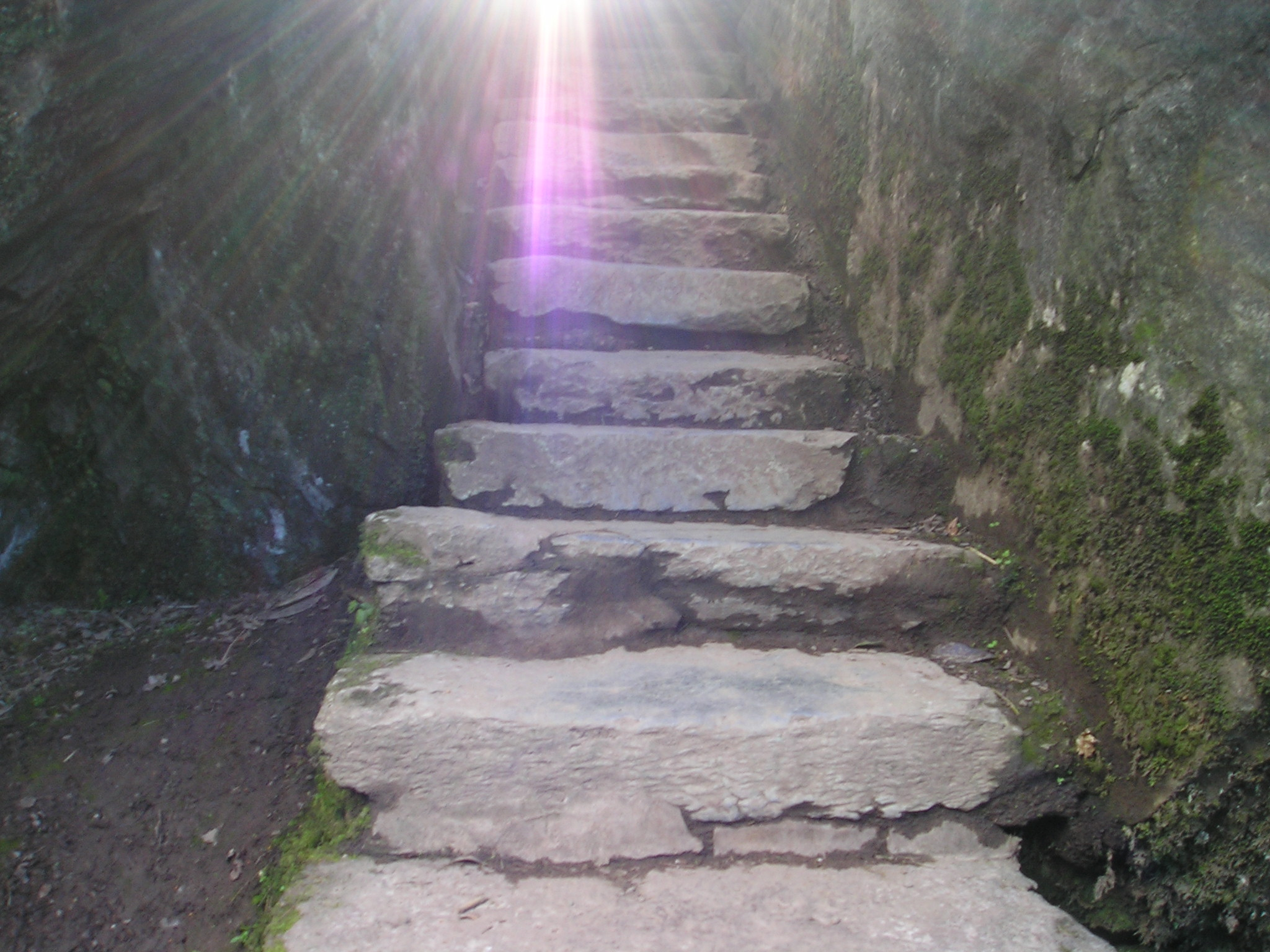 The Wishing Steps in the Blarney Castle grounds